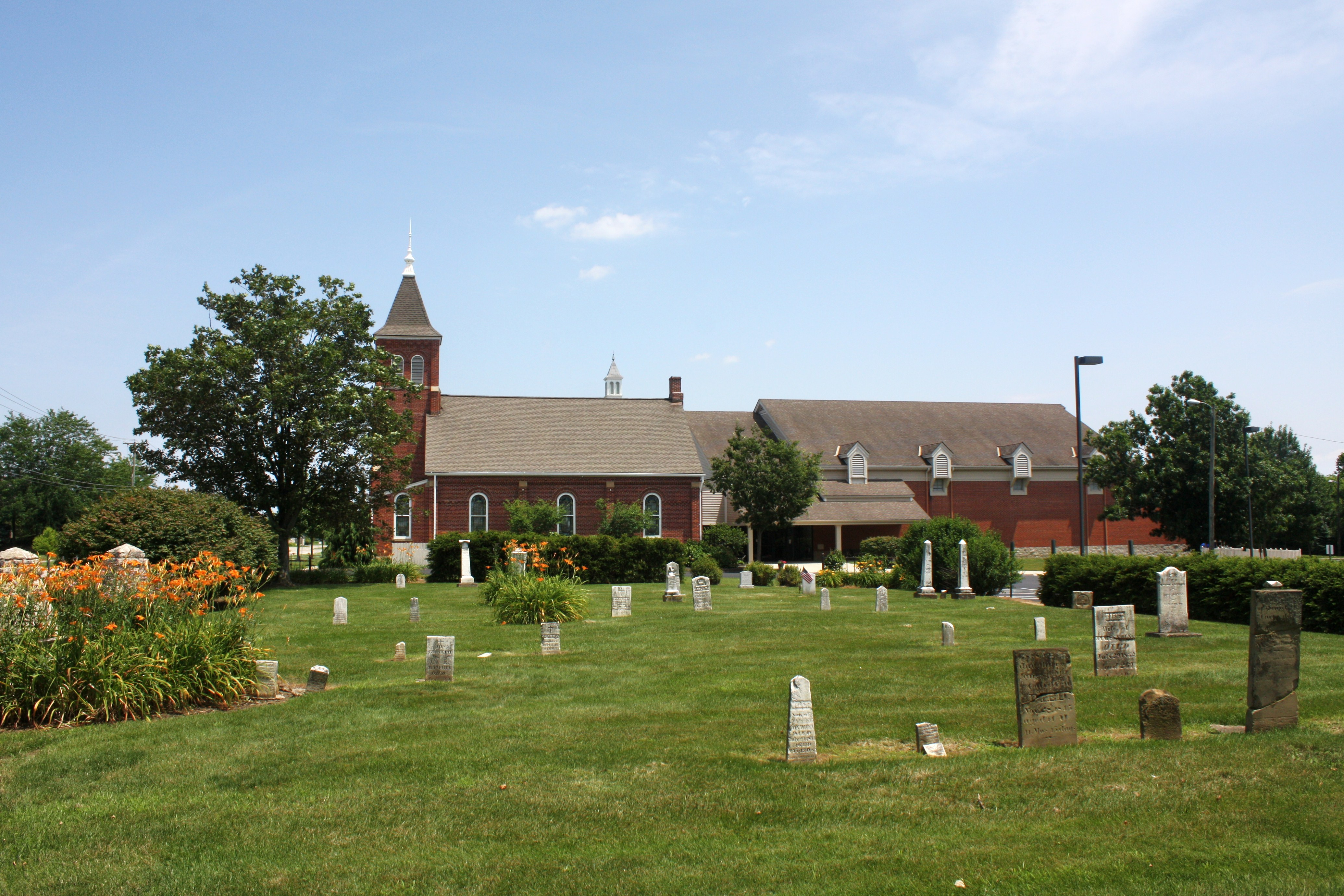 Sandy Corners Cemetery, next to St. John's Lutheran Church. Dublin, Ohio.